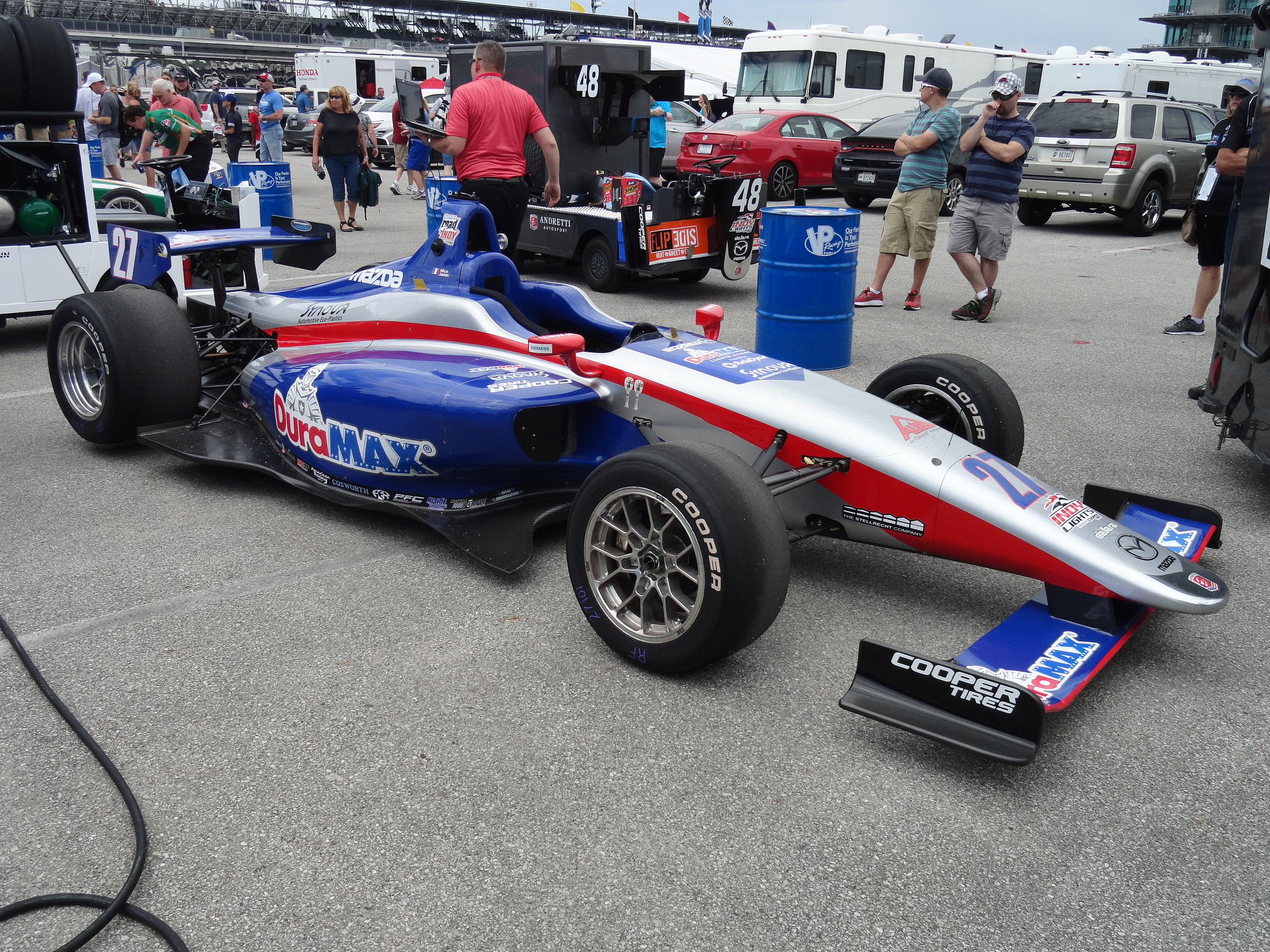 Car of French racecar driver Nico Jamin at the Freedom 100, race 7 of the 2017 Indy Lights.